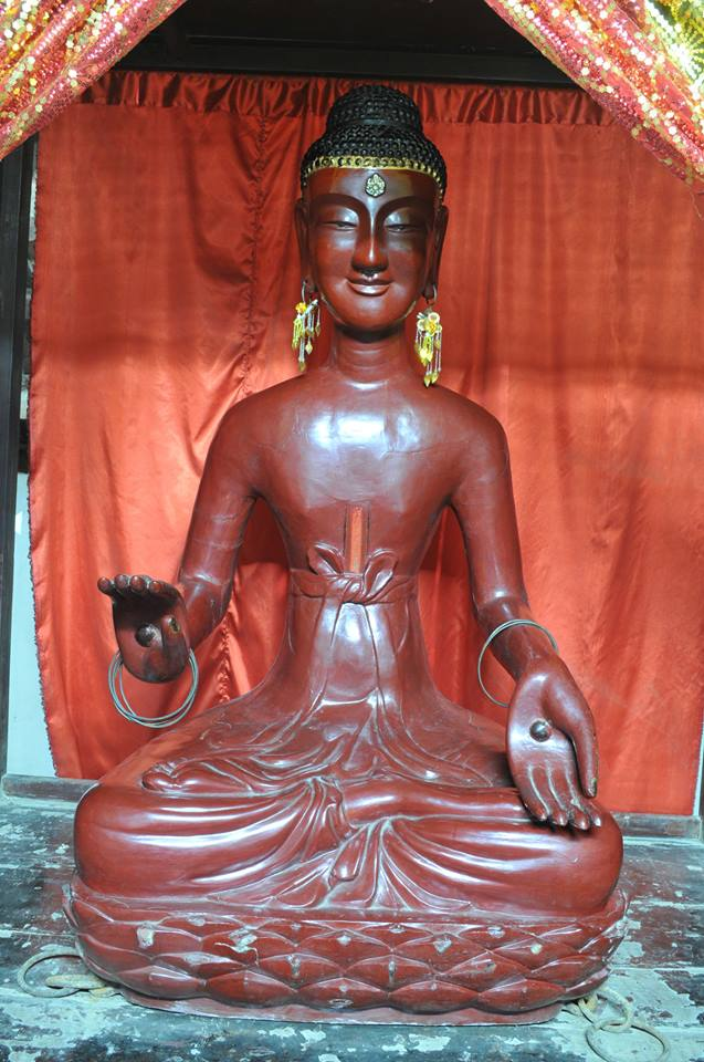 Goddess of (Lightning) Flash statue. Located in Trí Quả Buddhist Temple, Thuan Thanh, Bac Ninh, Viet Nam. Taken without usual decorative clothes